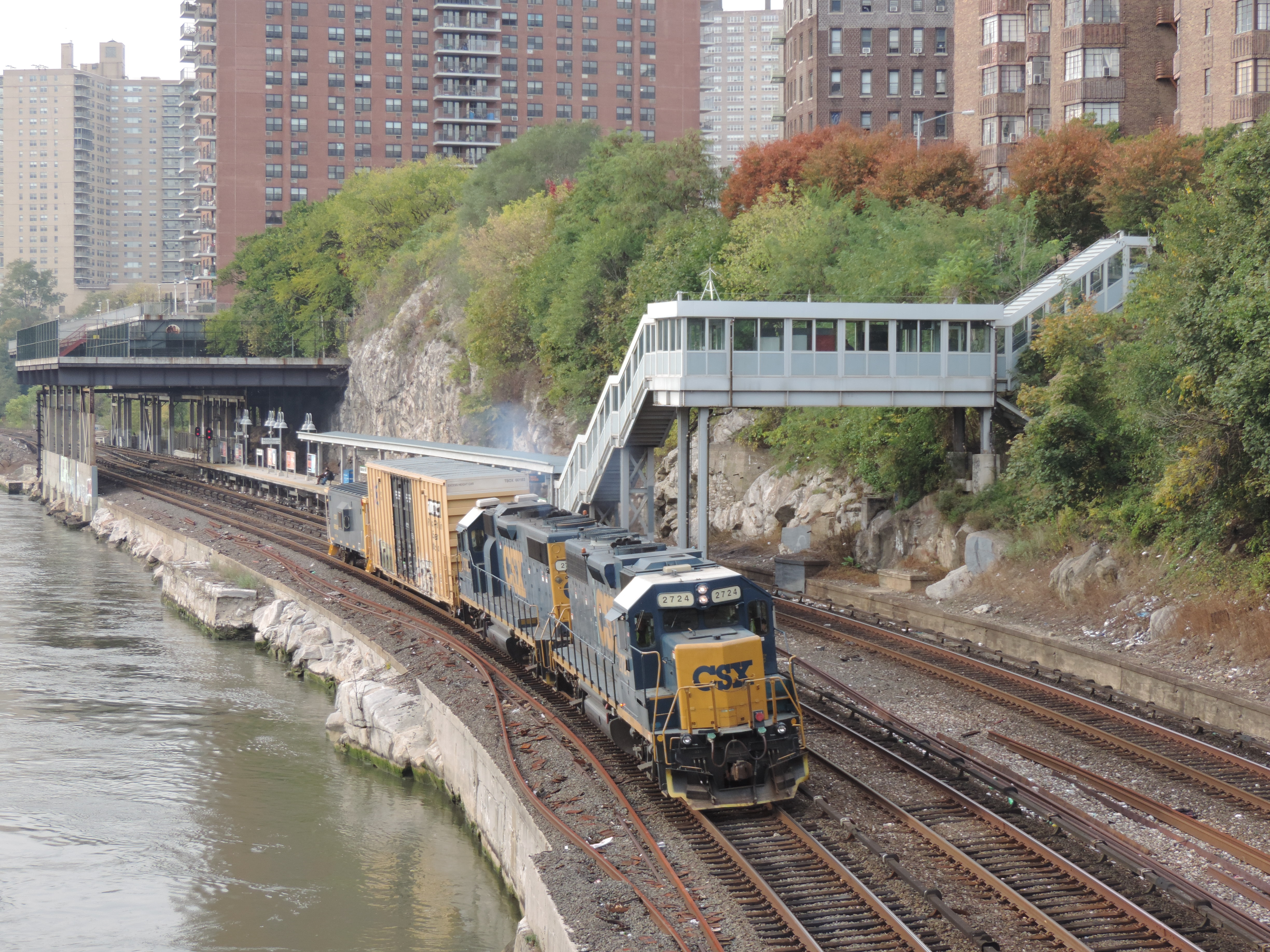 Looking northwest from Broadway Bridge at eastbound train on a cloudy day. Uncropped photo.